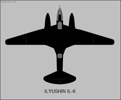 Plan-view silhouette of an Ilyushin Il-6 bomber